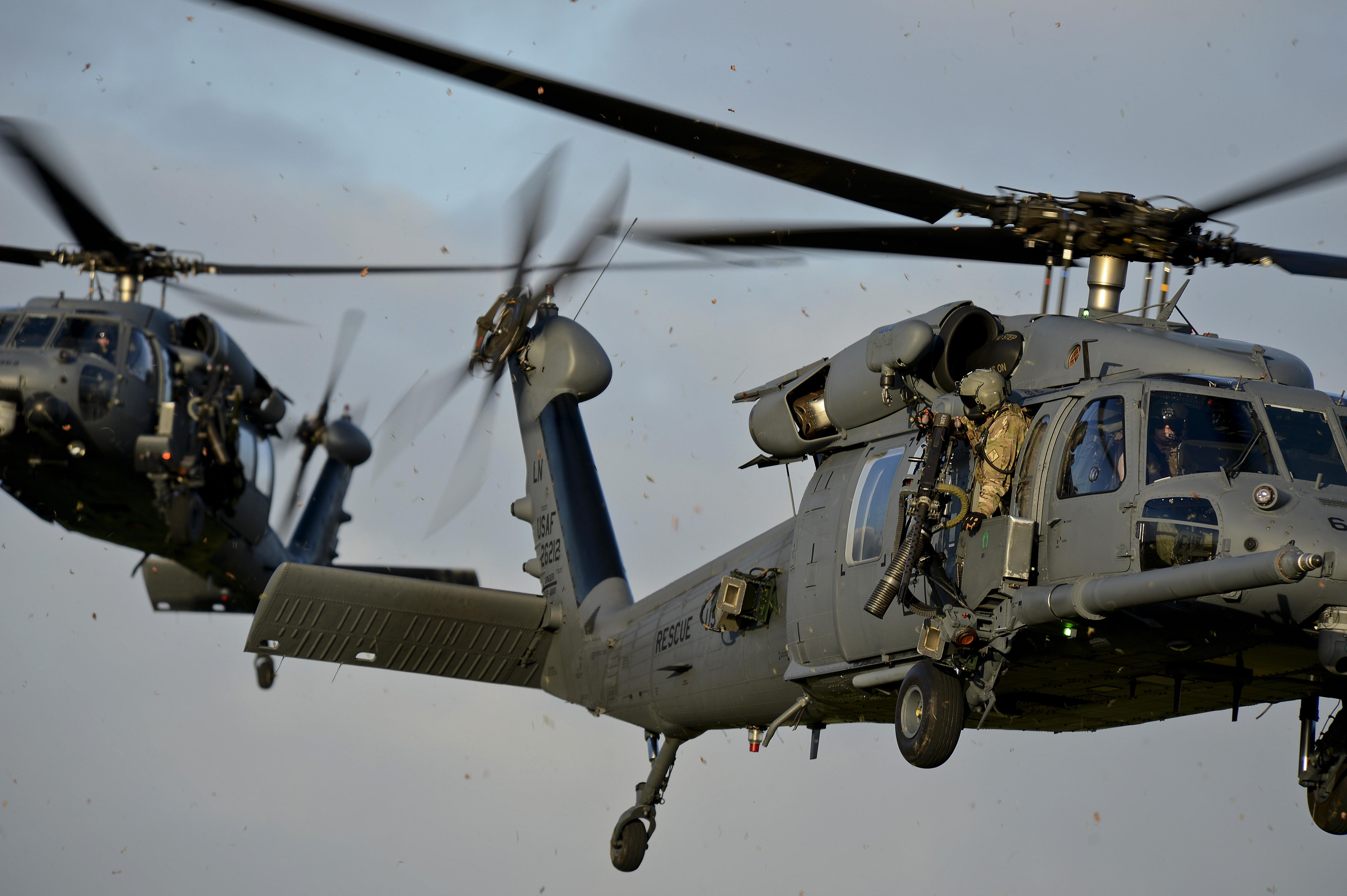 Two 56th Rescue Squadron HH-60G Pave Hawks respond in a combat search and rescue scenario Jan. 16, 2015, on Royal Air Force Lakenheath, England. Unlike other rescue squadrons, the 56th RQS is the only unit with a dedicated combat search and rescue force to conduct personnel recovery for a joint force.